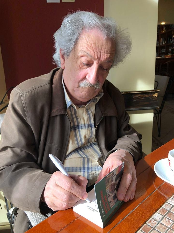 Pero Zubac signing a book for the Adligat Society